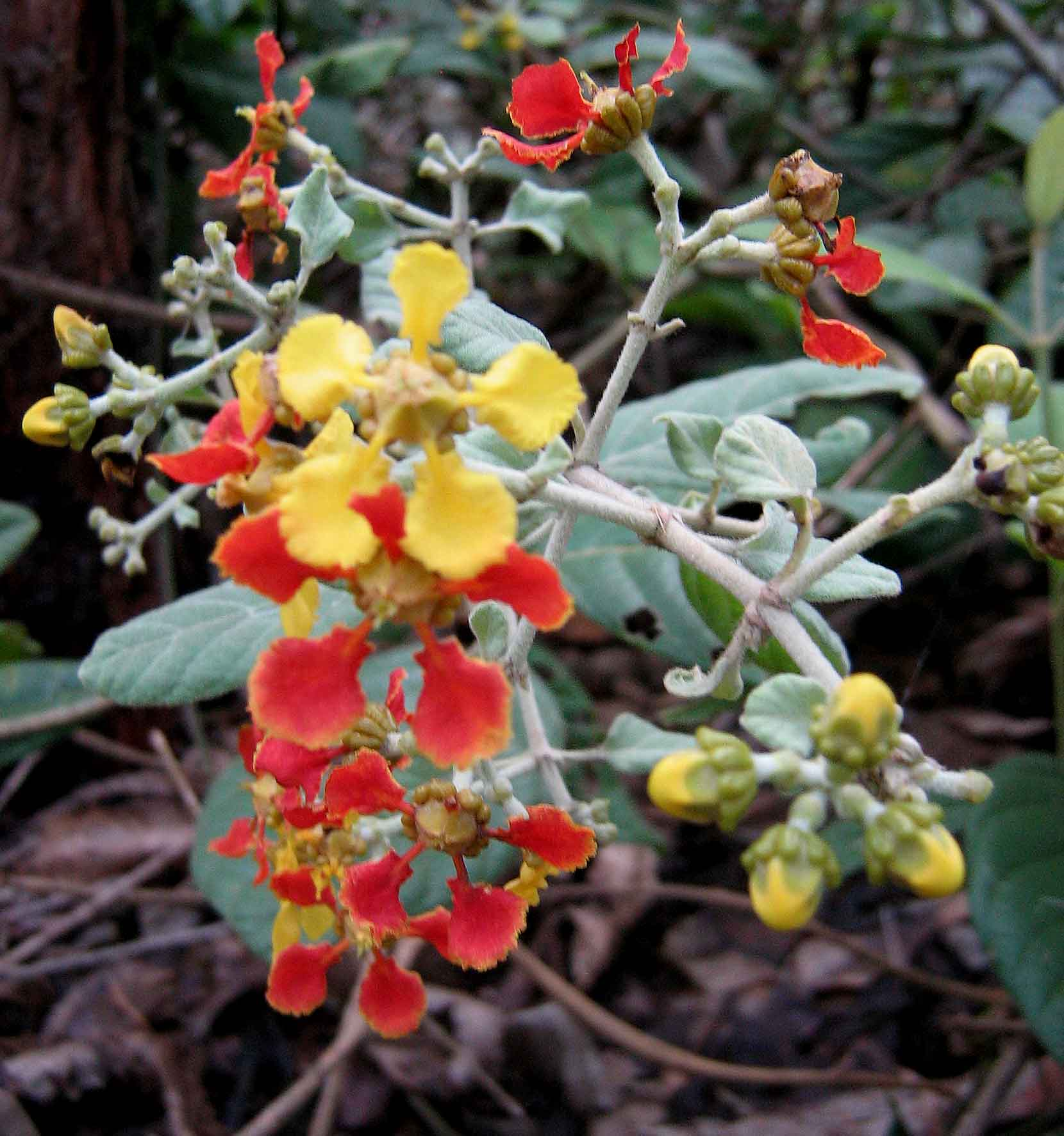 Tetrapterys phlomoides (Spreng.) Nied.